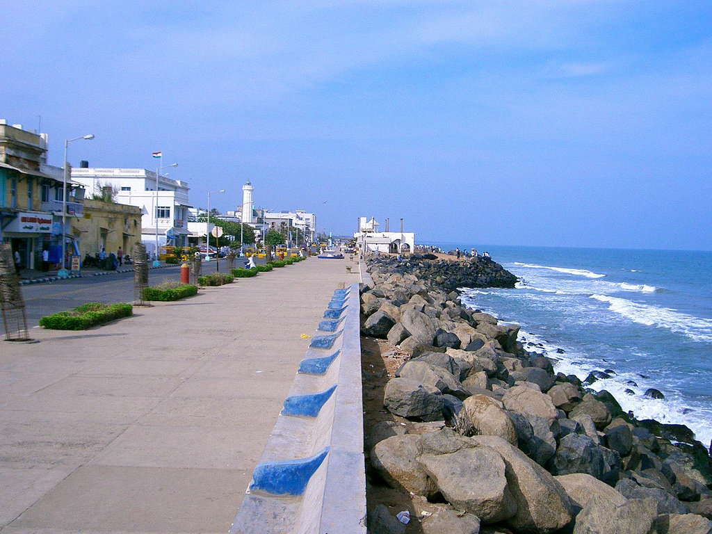 Beach promenade in Puducherry, India